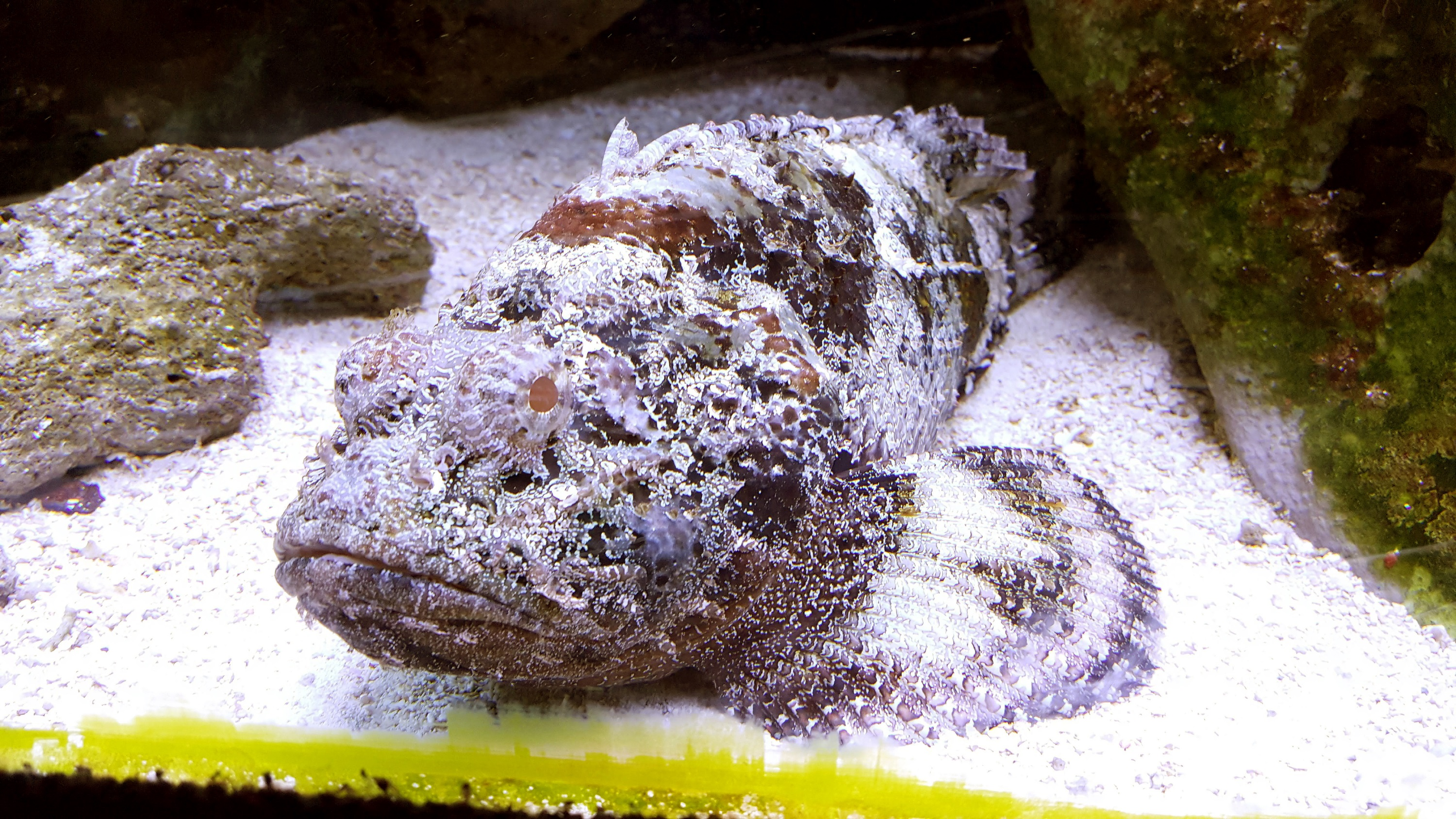 A stonefish (Synanceia horrida) at the Cleveland Zoo in Cleveland, Ohio, in the United States.